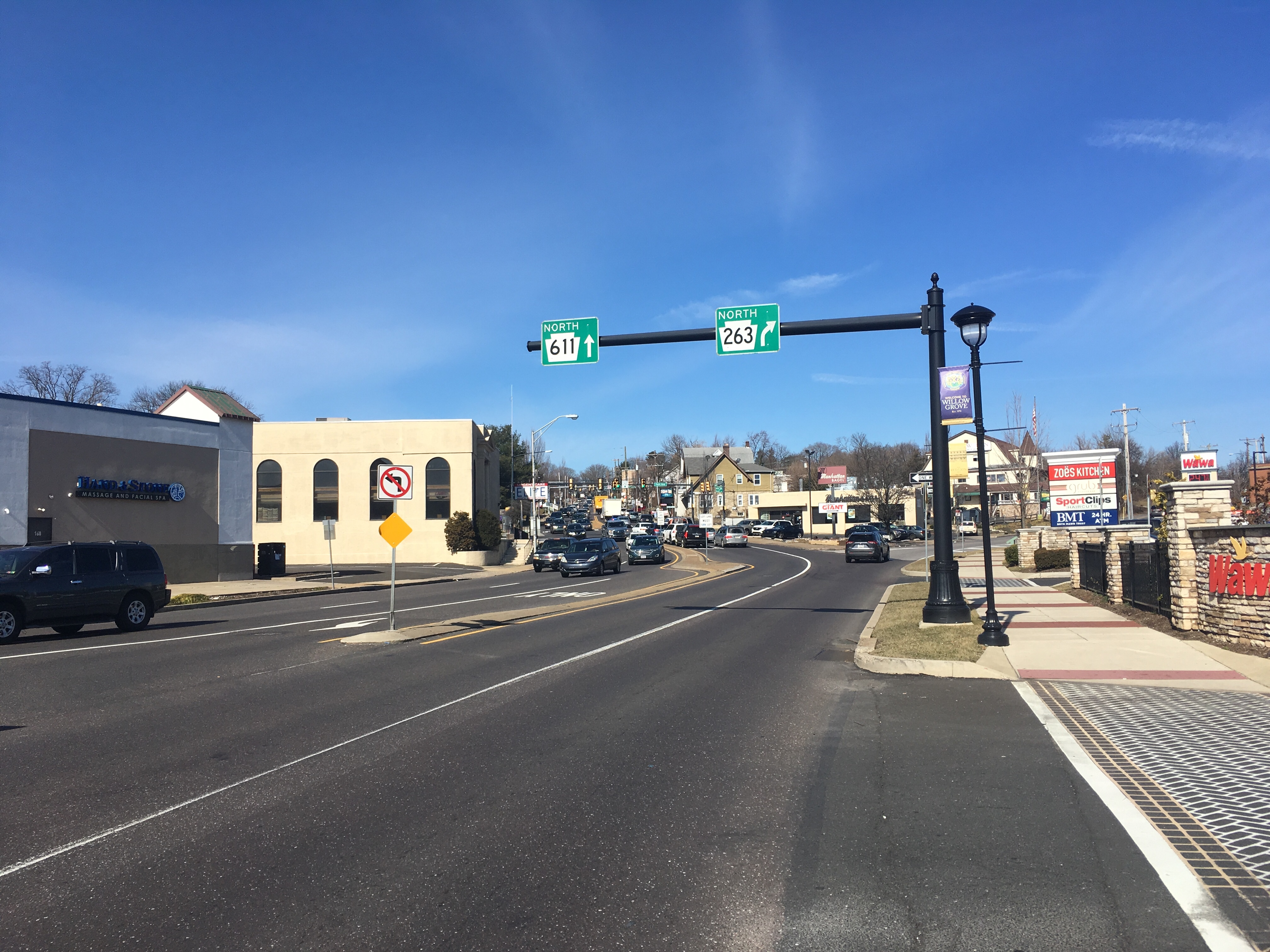 Northbound Pennsylvania Route 611 (Easton Road) at the beginning of northbound Pennsylvania Route 263 (York Road) in Willow Grove, Pennsylvania